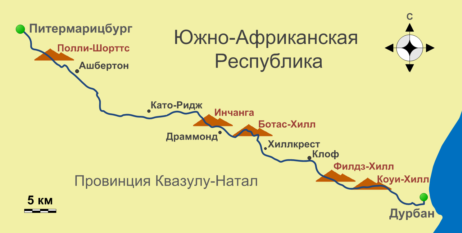 Comrades route, with the big five hills: Polly Shortts, Inchanga, Botha's, Fields and Cowies